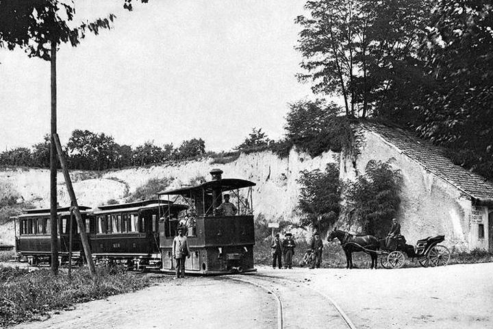 Train of the Tramway Mühlhausen–Ensisheim–Wittenheim (SMEW) at Hohle Berg.